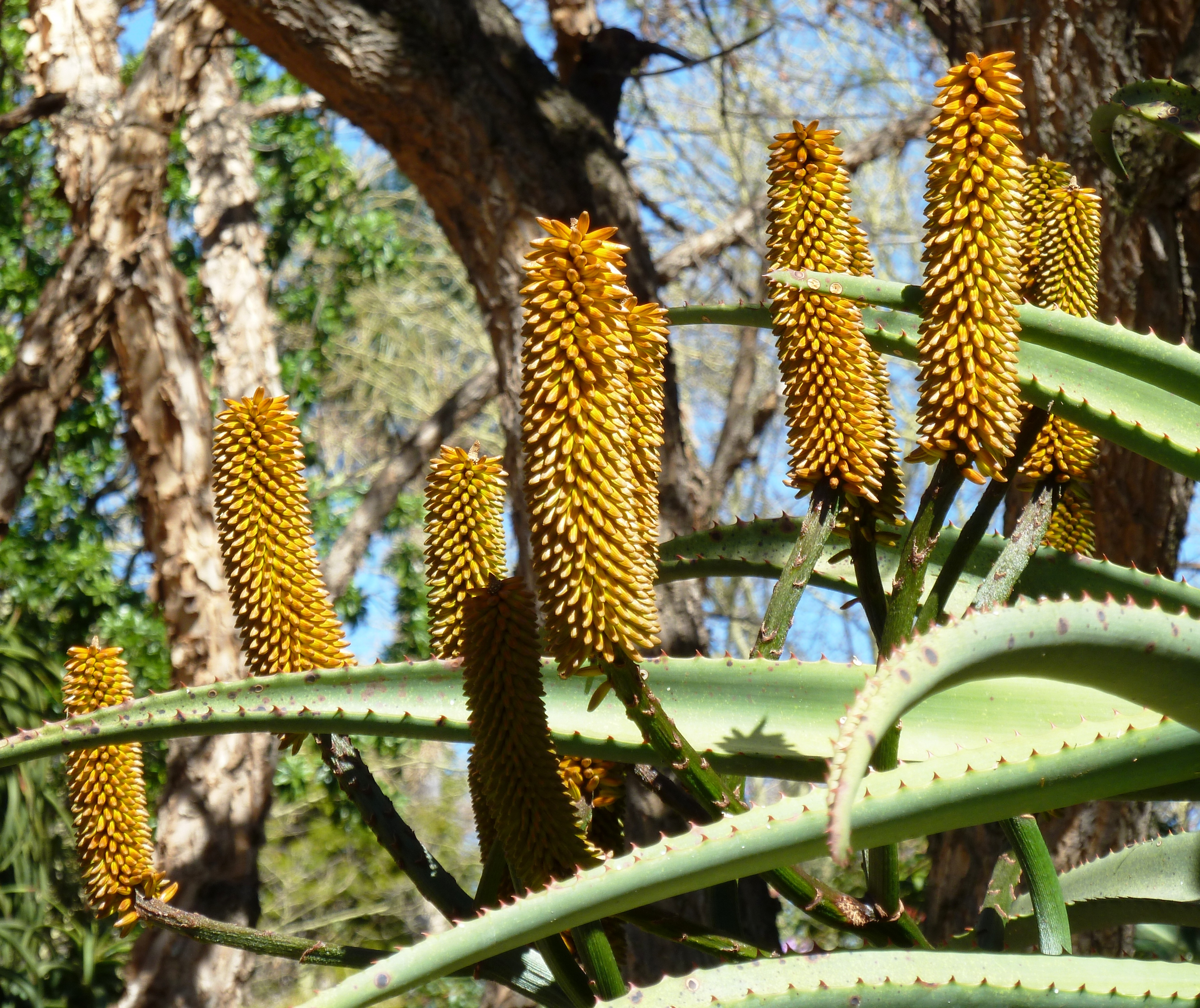 Golden-coloured inflorescence of a Bottlebrush aloe, just before the flowers open, Pretoria